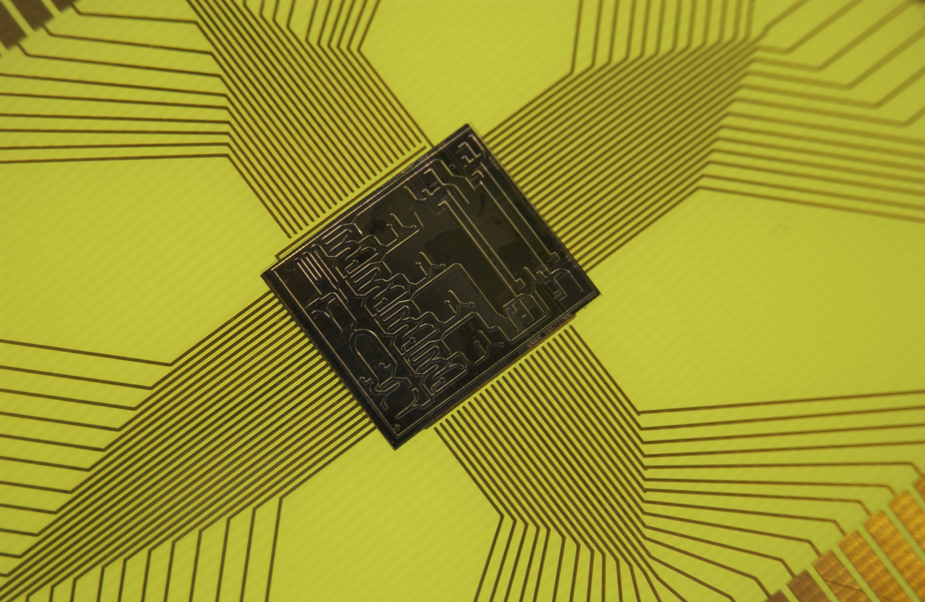 Lab on chip